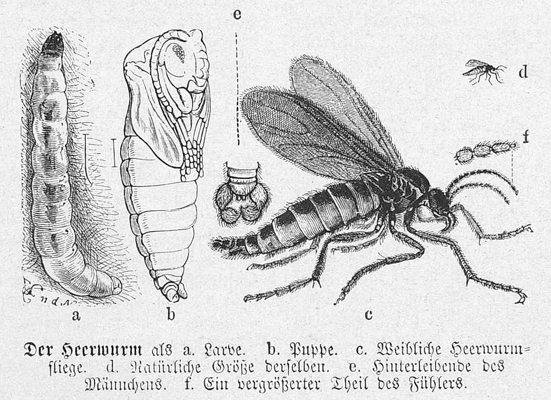 caption: "Der Heerwurm als a. Larve. b. Puppe. c. Weibliche Heerwurmfliege. d. Natürliche Größe derselben. e. Hinterleibende des Männchens. f. Ein vergrößerter Theil des Fühlers."